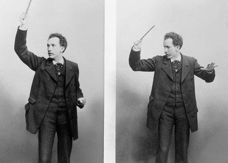 Photograph of Strauss conducting (about 1900?)